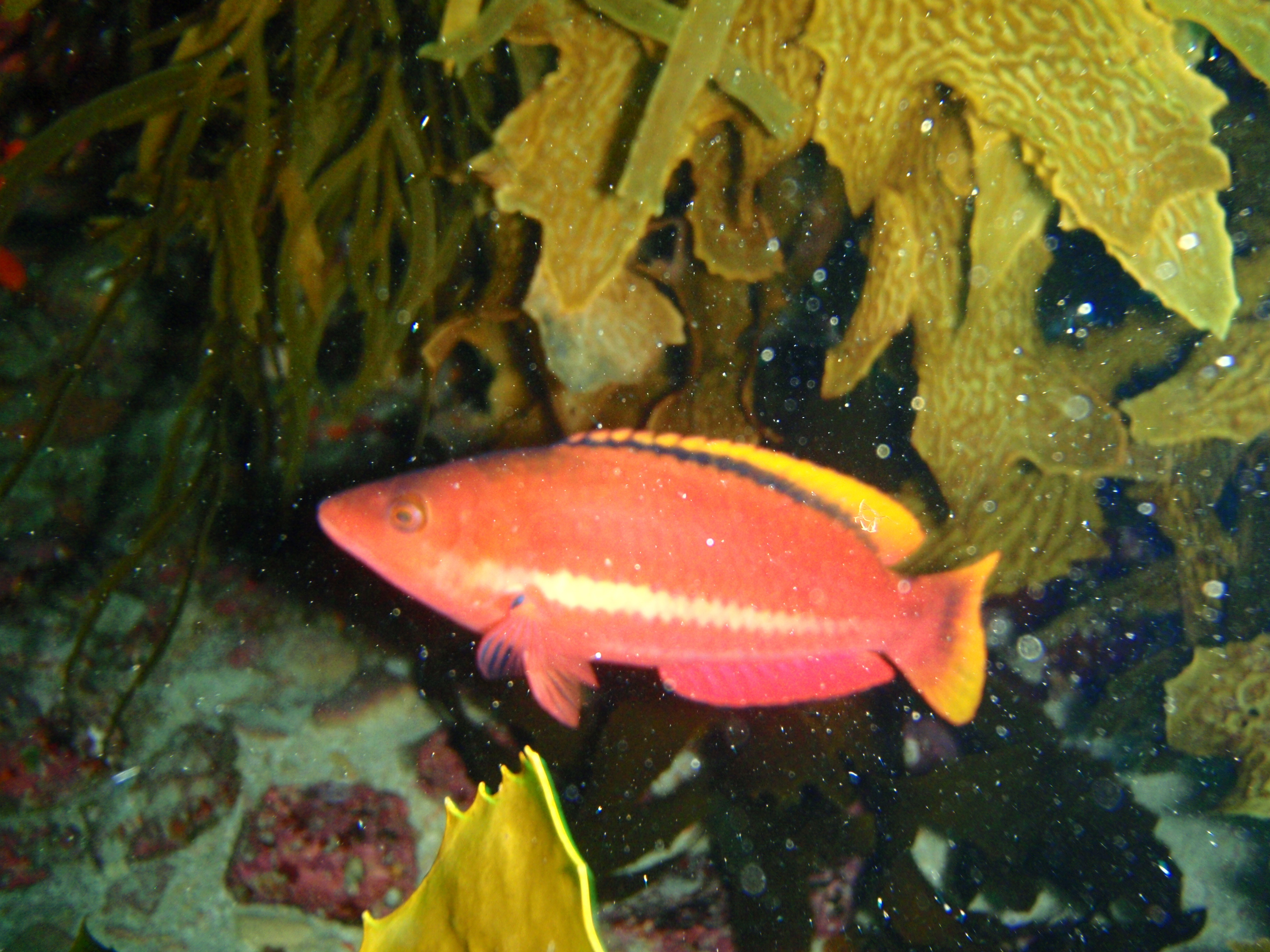 Redband wrasse Pseudolabrus biserialis at Michaelmas Reef in King George Sound, Western Australia